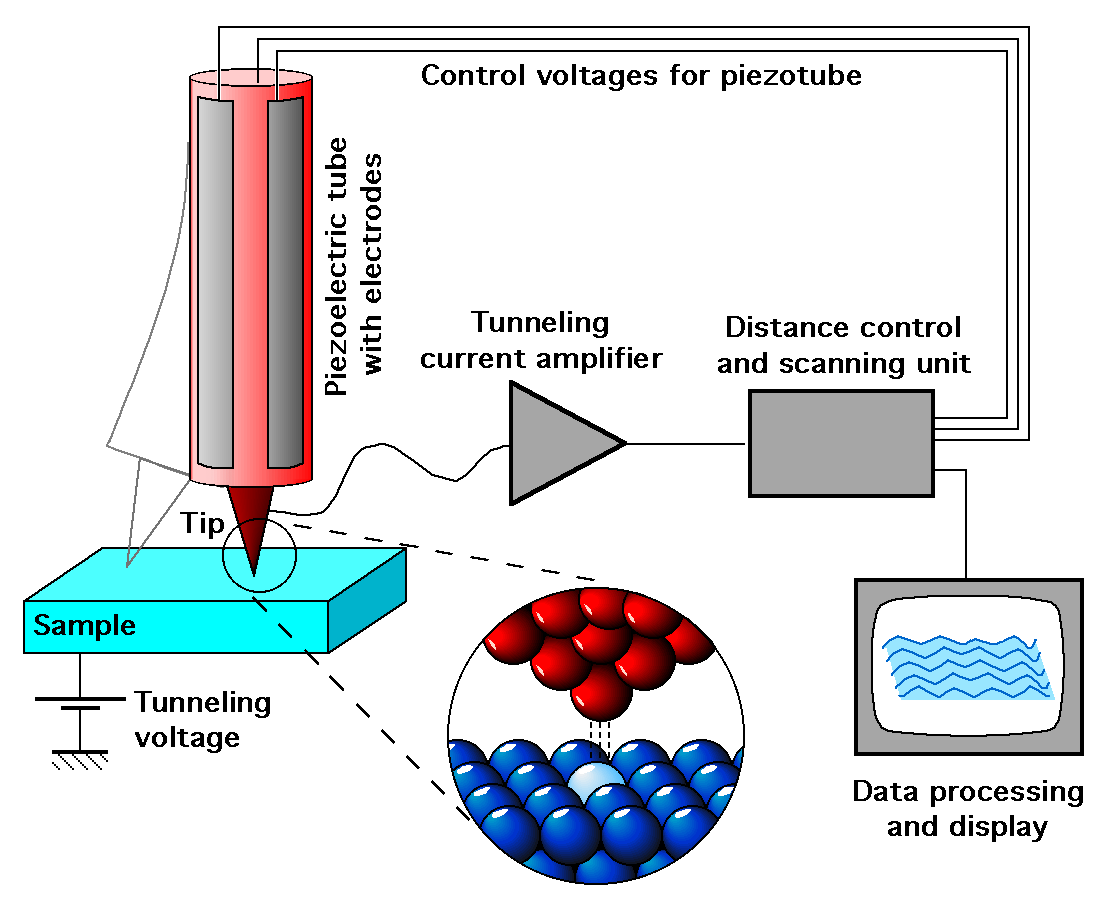 Schematic diagram of a scanning tunneling microscope